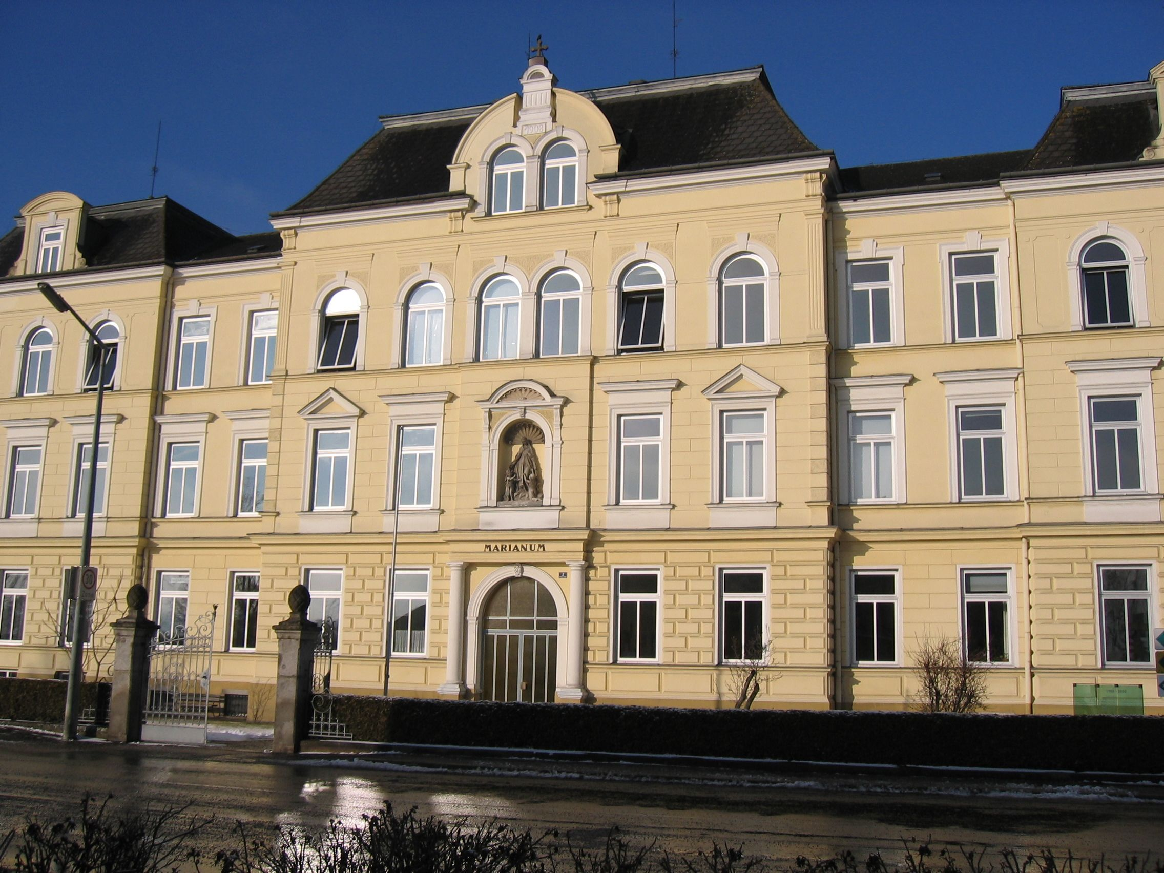 Marianum Freistadt